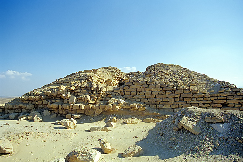 North side of the pyramid, Sila (Seila), el-Fayyum, Egypt